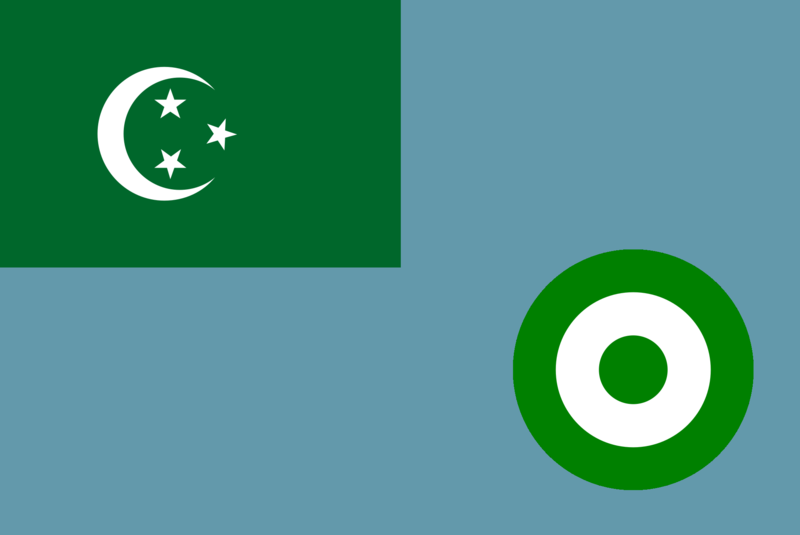 Ensign of the Royal Egyptian Air Force, was changed by 1958